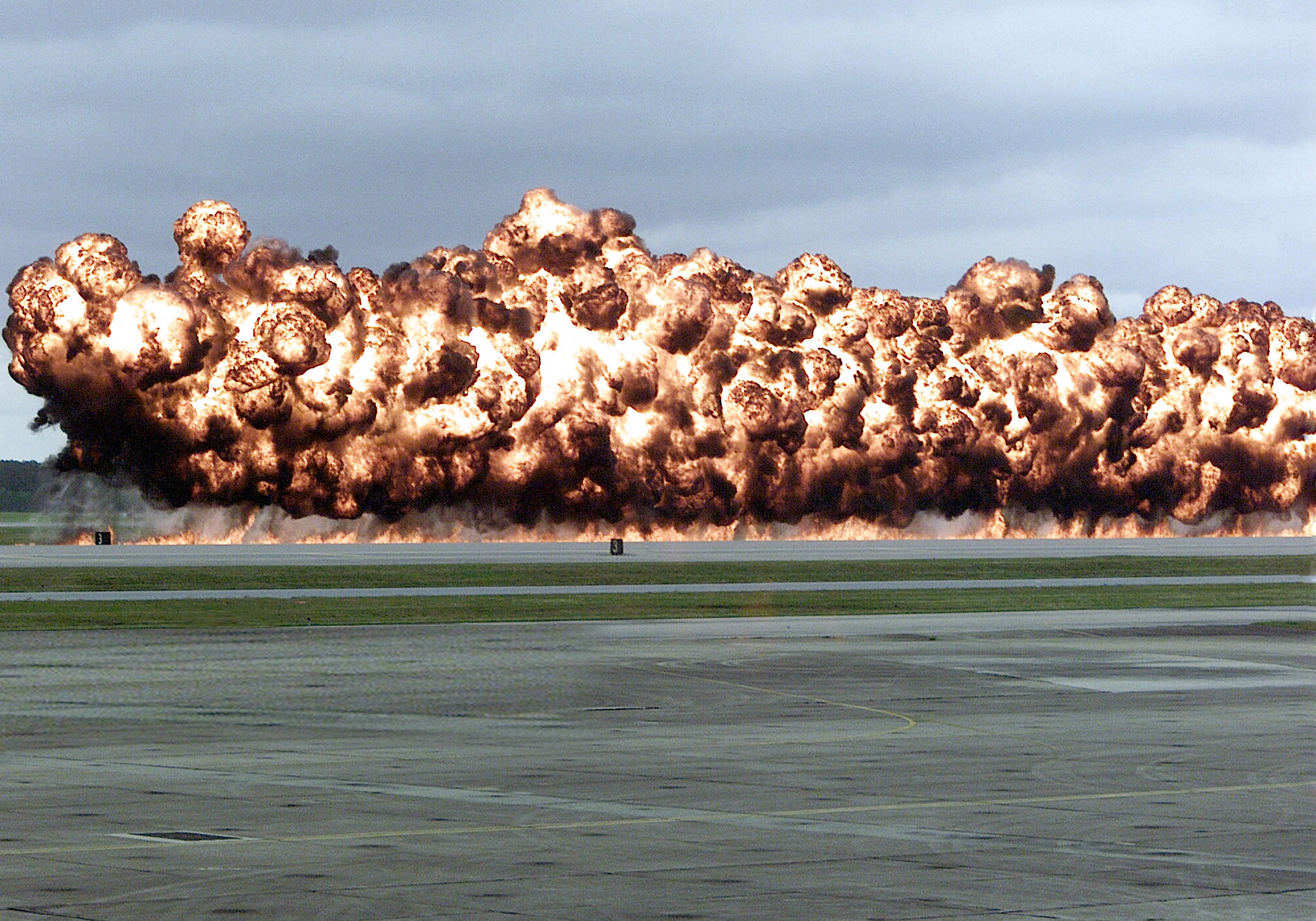 Crowds look on as a simulated Napalm explosion is set off on the Flight Line of Marine Corps Air Station (MCAS) Cherry Point during a Marine Air ground Task Force demonstration at the 2003 MCAS Air Show on May 3, 2003. Official USMC photo by LCpl Andrew Pendracki. Released. Submitted by MCAS Cherry Point.